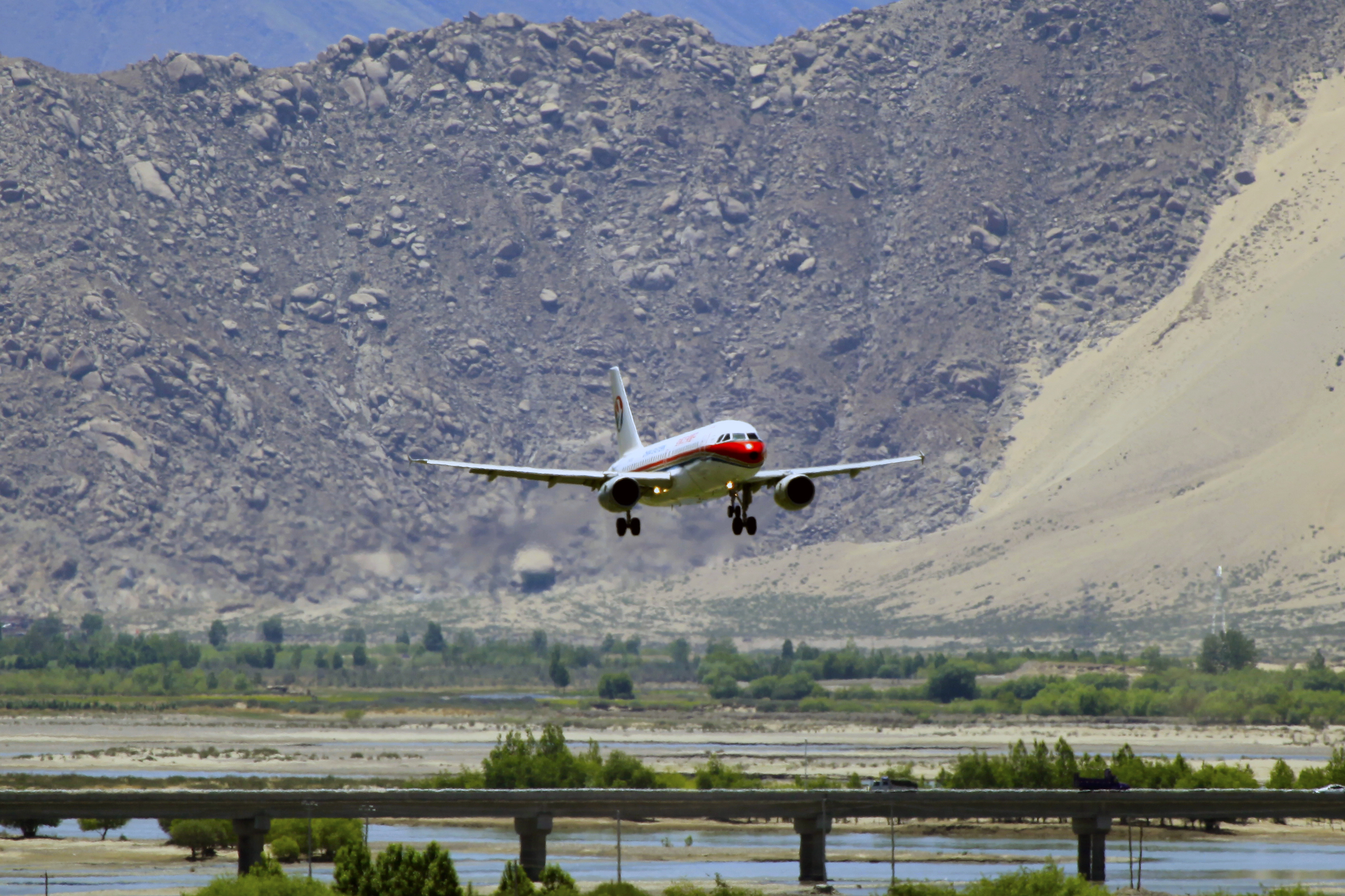 B-6218 - China Eastern Airlines - Airbus A319-115 - LXA